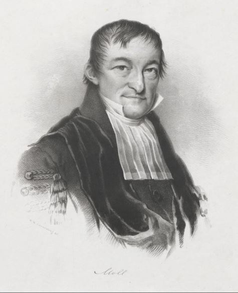 Gerrit (Gerard) Moll (Amsterdam, 18 January 1785 - Amsterdam, 17January 1838) was a Dutch mathematician, physicist and astronomer and professor and rector at Utrecht University.